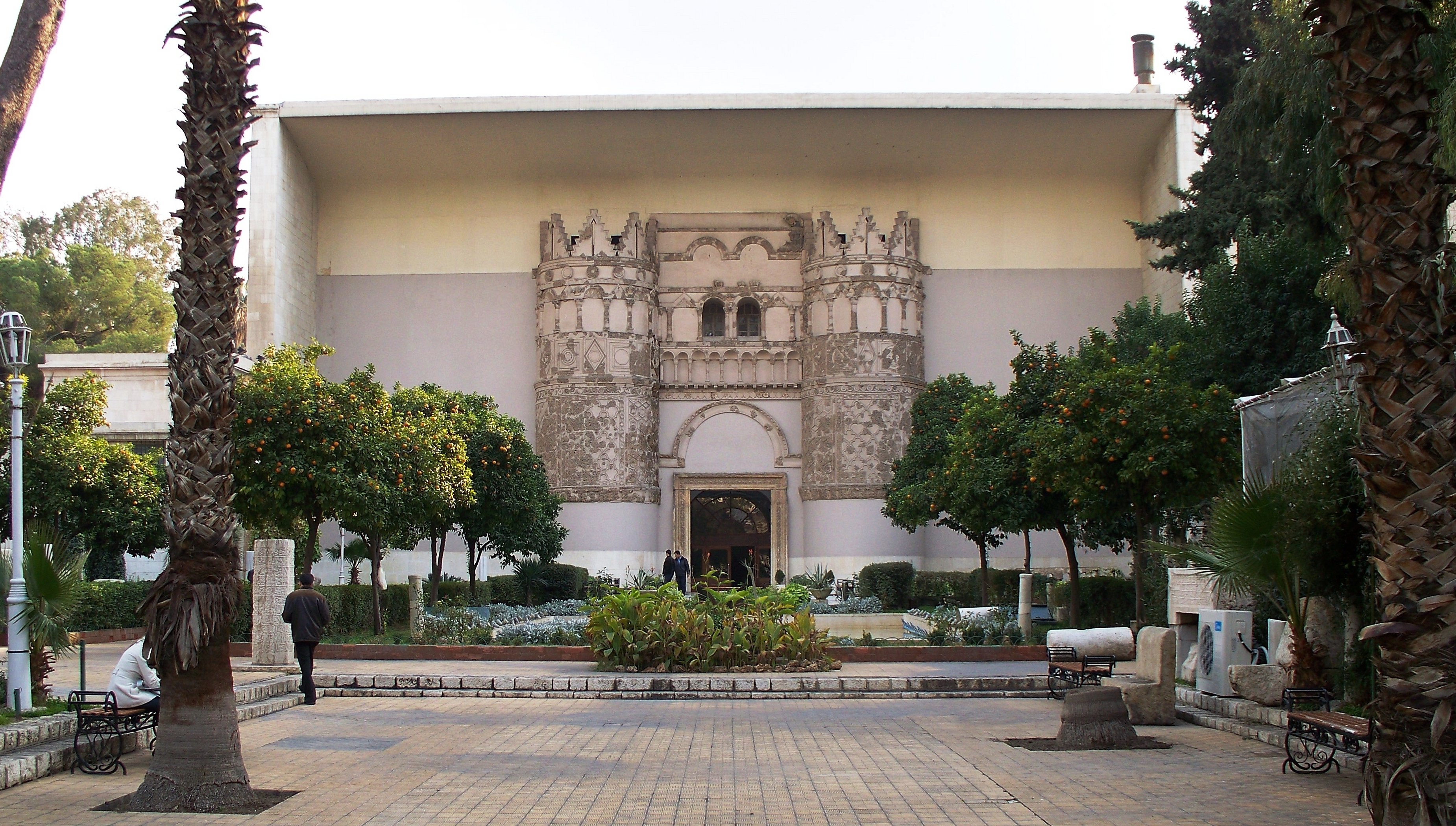 The National Museum of Damascus.